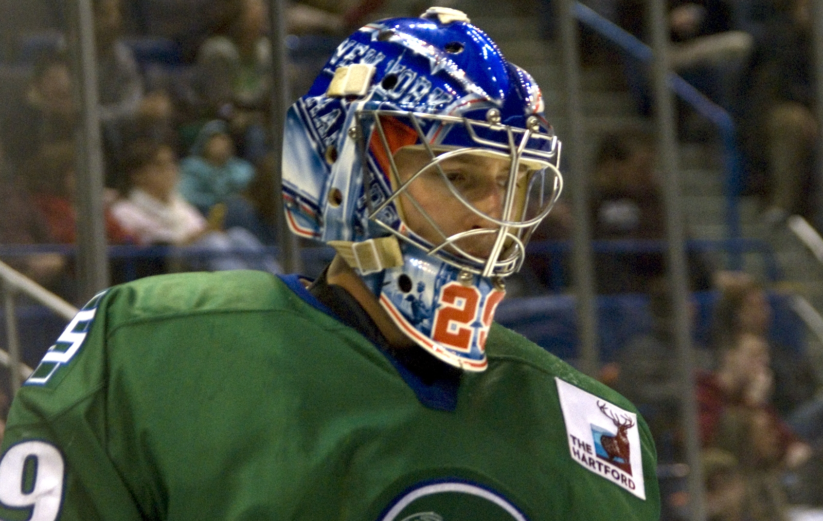 Whale goaltender Chad Johnson Providence Bruins vs Connecticut Whale in American Hockey League action at the XL Center in Hartford, Connecticut. This photo was taken by Sarah Connors on January 15, 2011 using a Nikon D200. This photo also appears in sarah_connors' Flickr photostream, and is one of a set of 216 "Providence @ Whale, 1/15/11" Tags: Boston Bruins, Providence Bruins, New York Rangers, Connecticut Whale, NHL, AHL, XL Center, hockey, icehockey, Hartford Wolf Pack